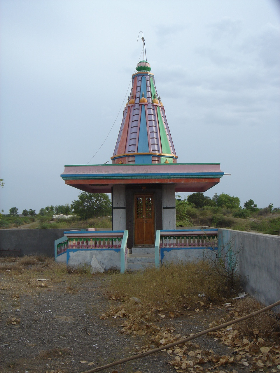 The Shimpi community’s temple of Sant Namdev in Chaugaon village where social and cultural functions by the community are organised.